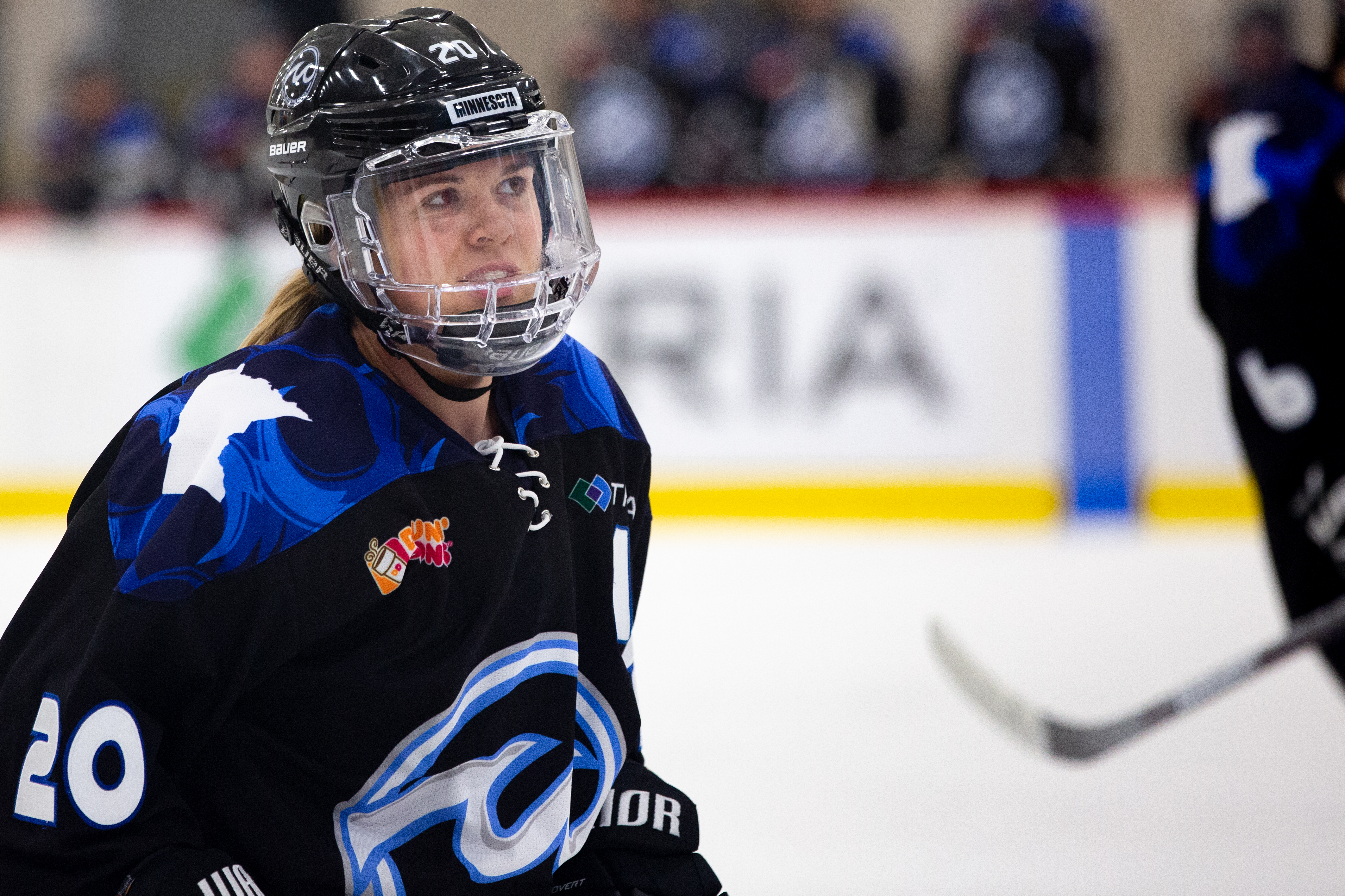 The second game in the 2018 season opening weekend at Tria Rink in St Paul MN. The Whitecaps won the game 3-1.